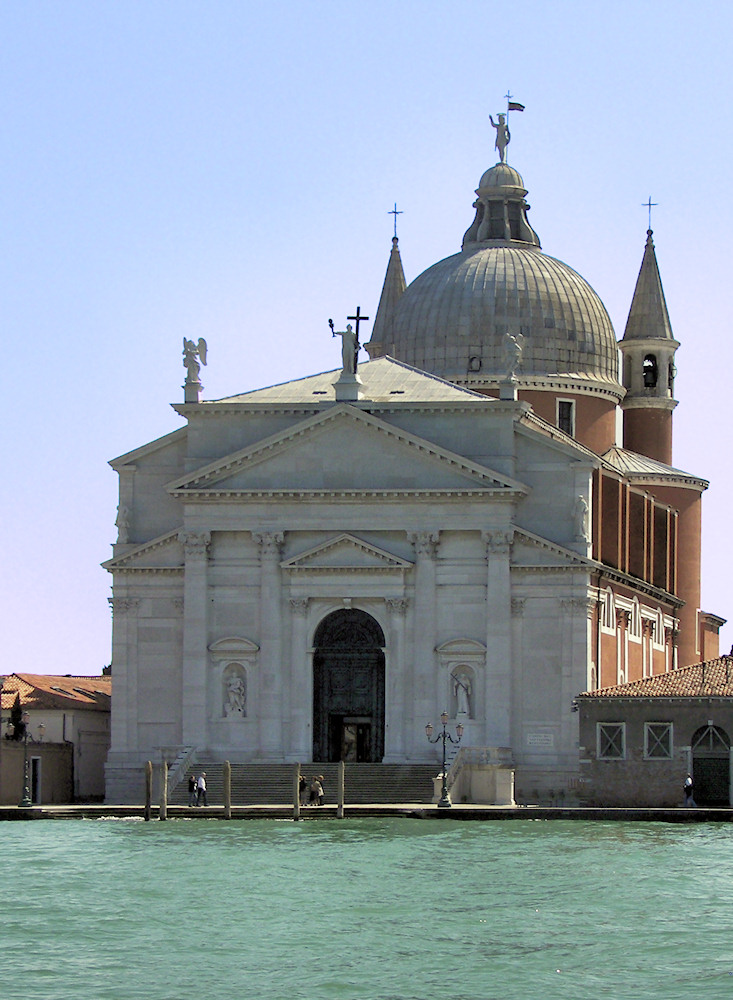 Church of the Most Holy Redeemer, Venice, Italia